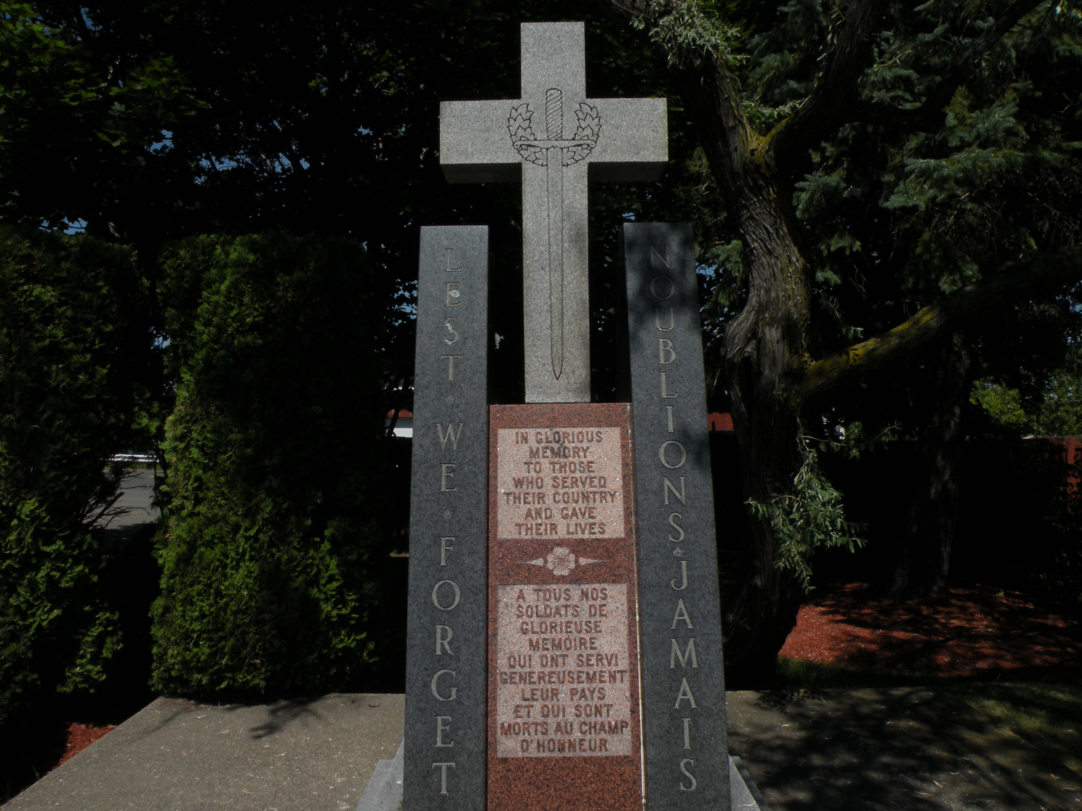 Detail of the war memorial in Atholville, New Brunswick, Canada.